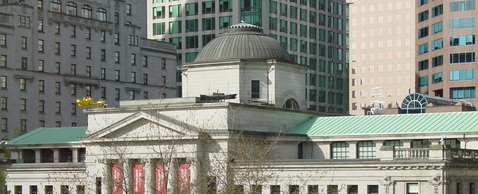 Image of the rooftop of the Vancouver Art Gallery cropped from :Image:Vancouver Art Gallery Robson Square from third floor.jpg by Jason Vanderhill in order to highlight Four Boats Stranded: Red and Yellow, Black and White by Ken Lum.